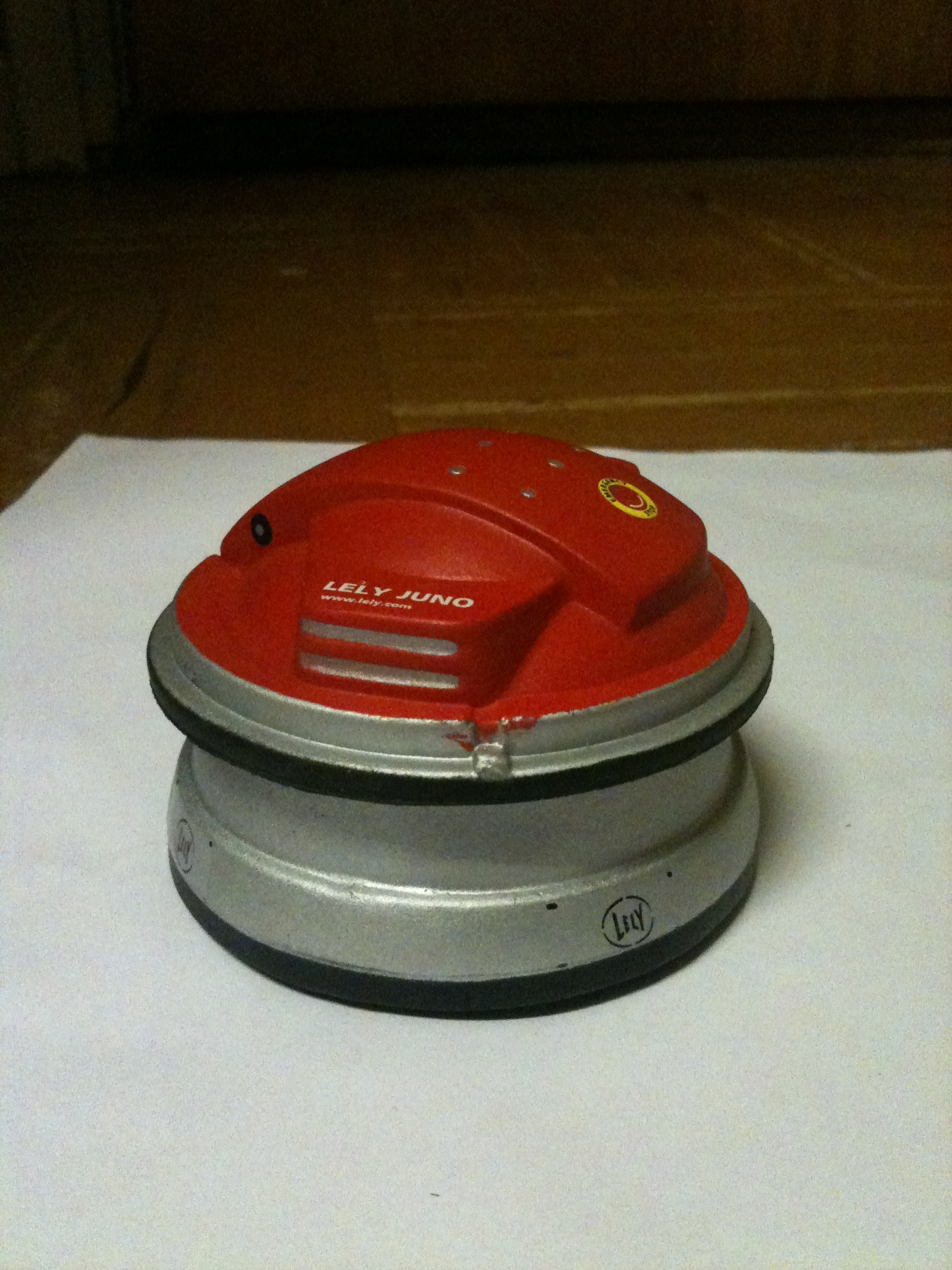 model made from plastic of robot Lely Juno